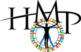 Logo of the Human Microbiome Project, a program of the NIH Common Fund, National Institutes of Health. Captured from the home page of the Human Microbiome Project website